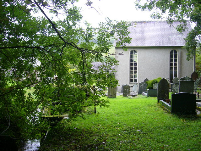 Living Waters is quite a popular name for Baptist churches. This hymn speaks of "living fountains". Ainon Baptist Chapel, Gellywen, Carmarthenshire, Wales (built 1828, rebuilt 1880) seen here could also claim that name because the baptismal tank (corner of it visible at bottom left) is fed directly from the stream which flows through the graveyard.